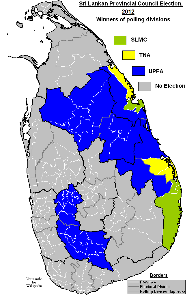 Map showing winners of polling divisions in the Sri Lankan provincial council election of 2012.